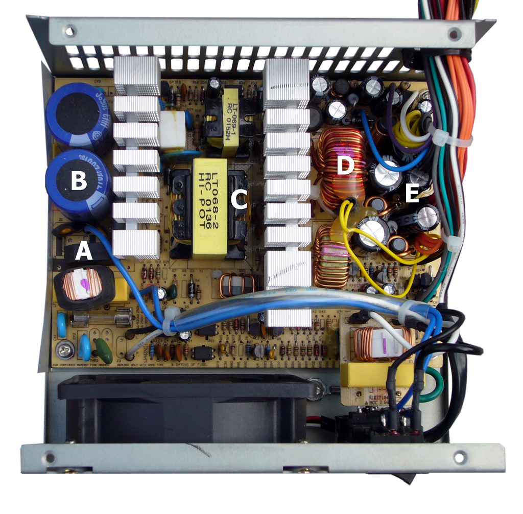 ATX power supply interior Legend: A - bridge rectifier B - input filter capacitors between B and C - Heatsink of high-voltage transistors C - transformer between C and D - Heatsink of low-voltage, high-current rectifiers D - output filter coil E - output filter capacitors